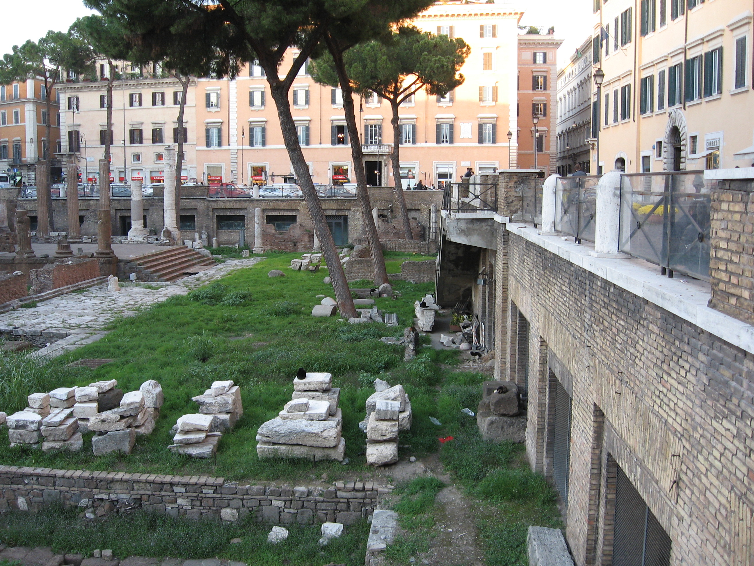 Largo di Torre Argentina, a square in Rome, Italy. Located in the Largo Argentina is the Torre Argentina Cat Sanctuary, a no-kill shelter for homeless cats